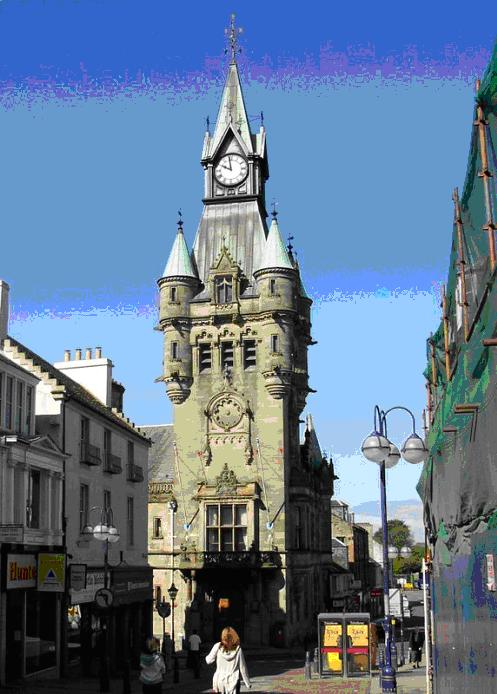 Dunfermline city chambers